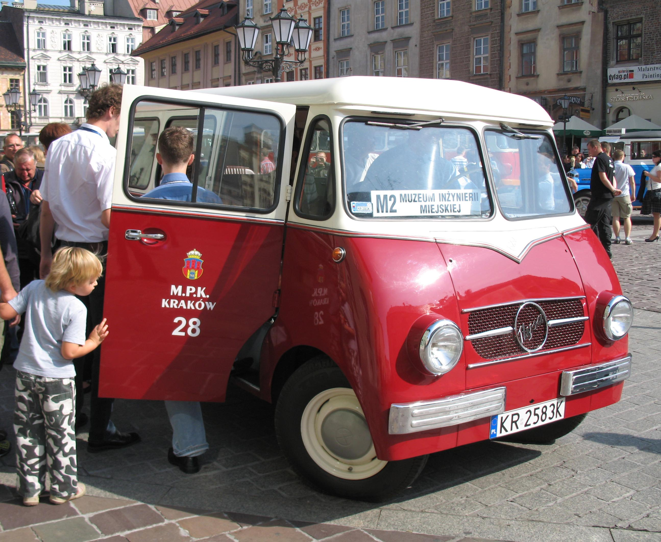 Nysa N59M microbus (#28) in Kraków, Poland. Built 1959, MPK Kraków operator.